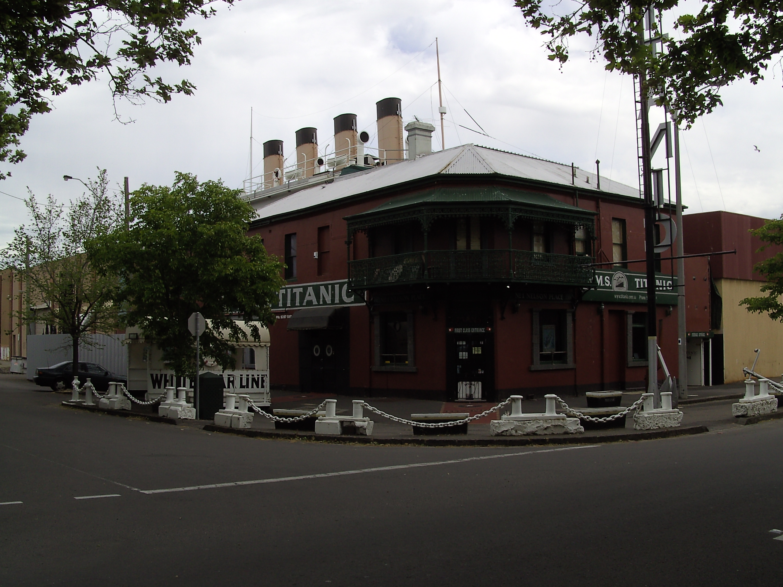 RMS Titanic theatre-restaurant, 1 Nelson Place, Williamstown (formerly Prince of Wales Hotel, c1857)